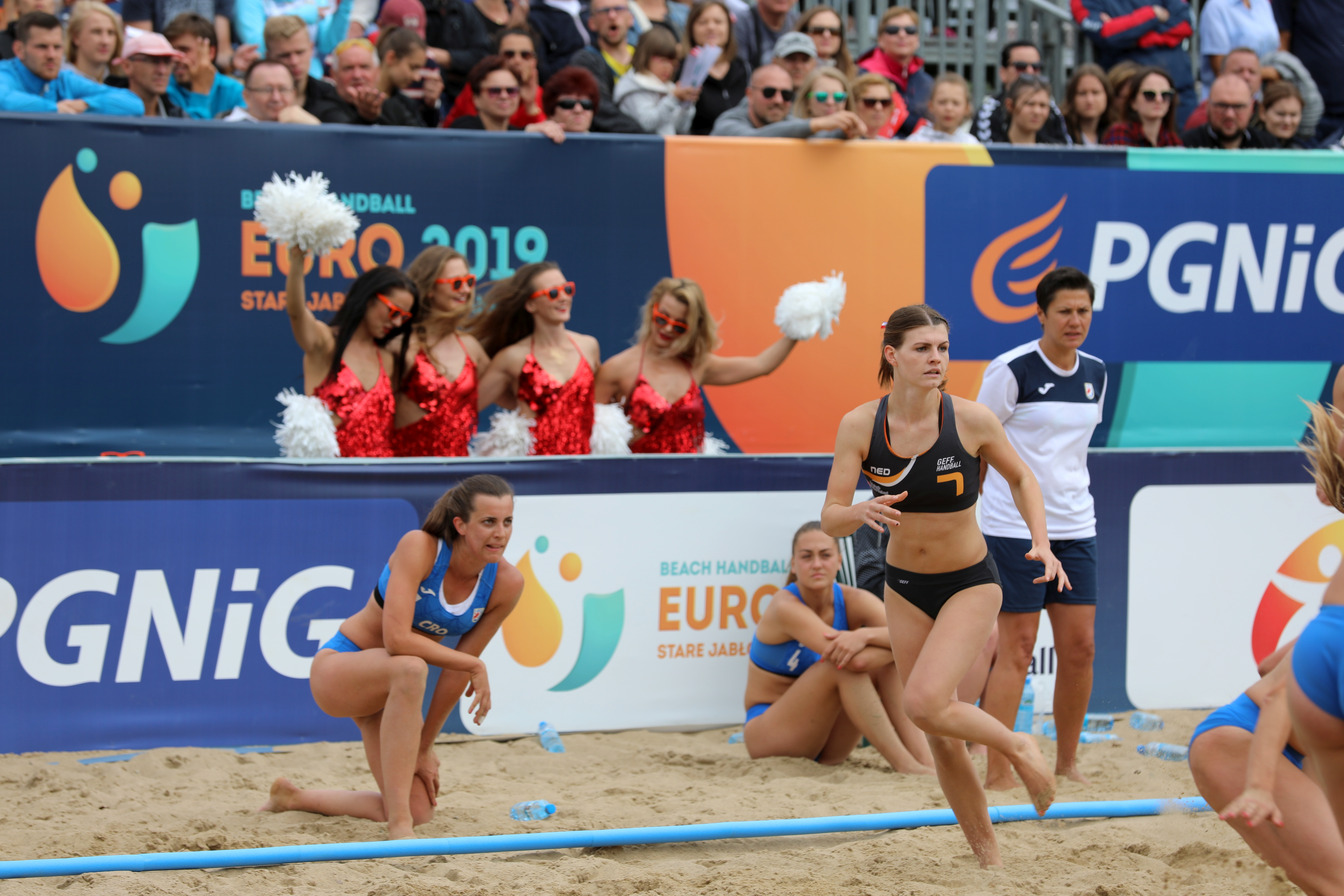 Beach handball Euro; Day 6: 7 July 2019 – Women's Bronze Medal Match – Croatia-Netherlands 0:2 (14:23, 20:22)